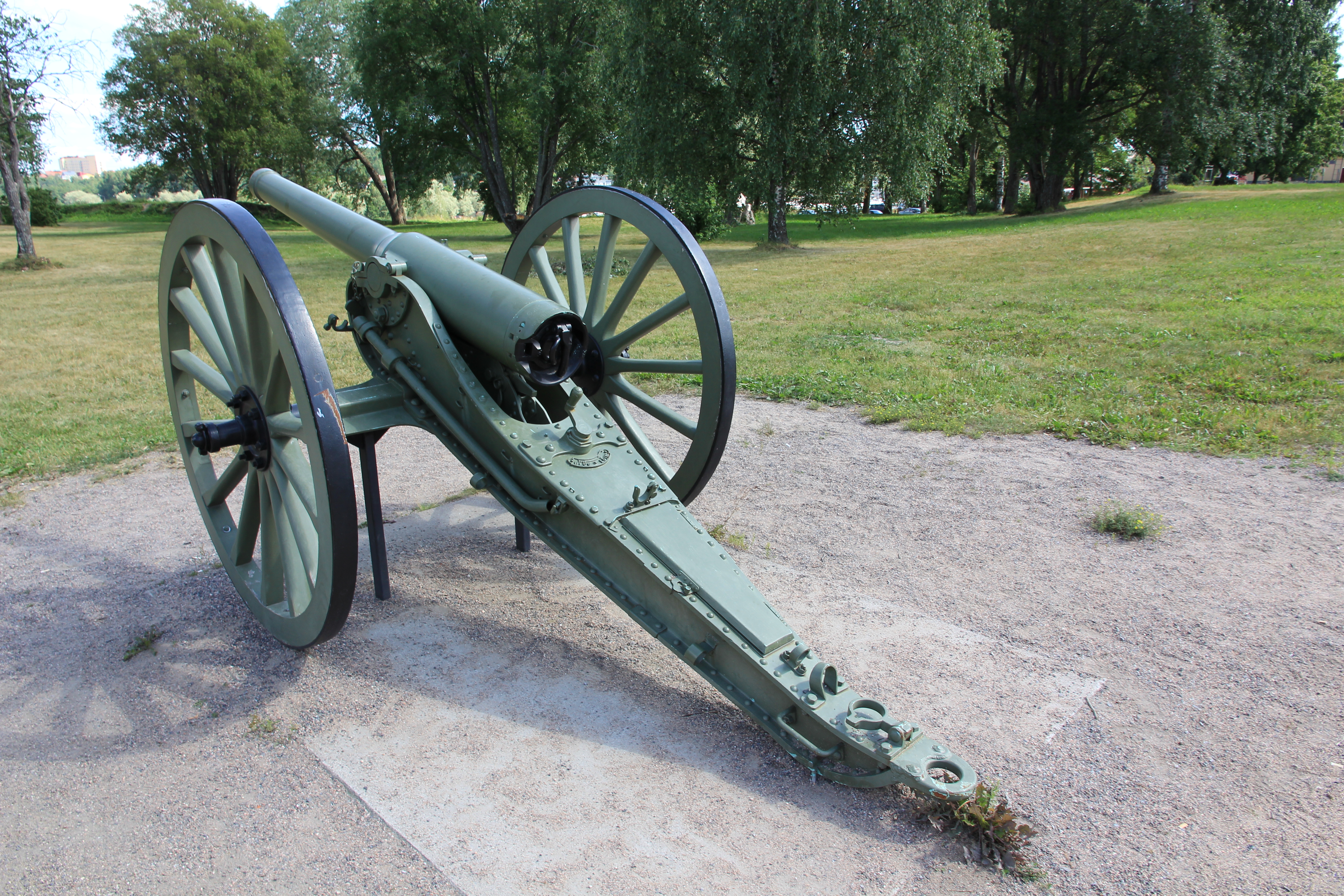 De Bange 90 mm cannon in Lappeenranta Fortress.